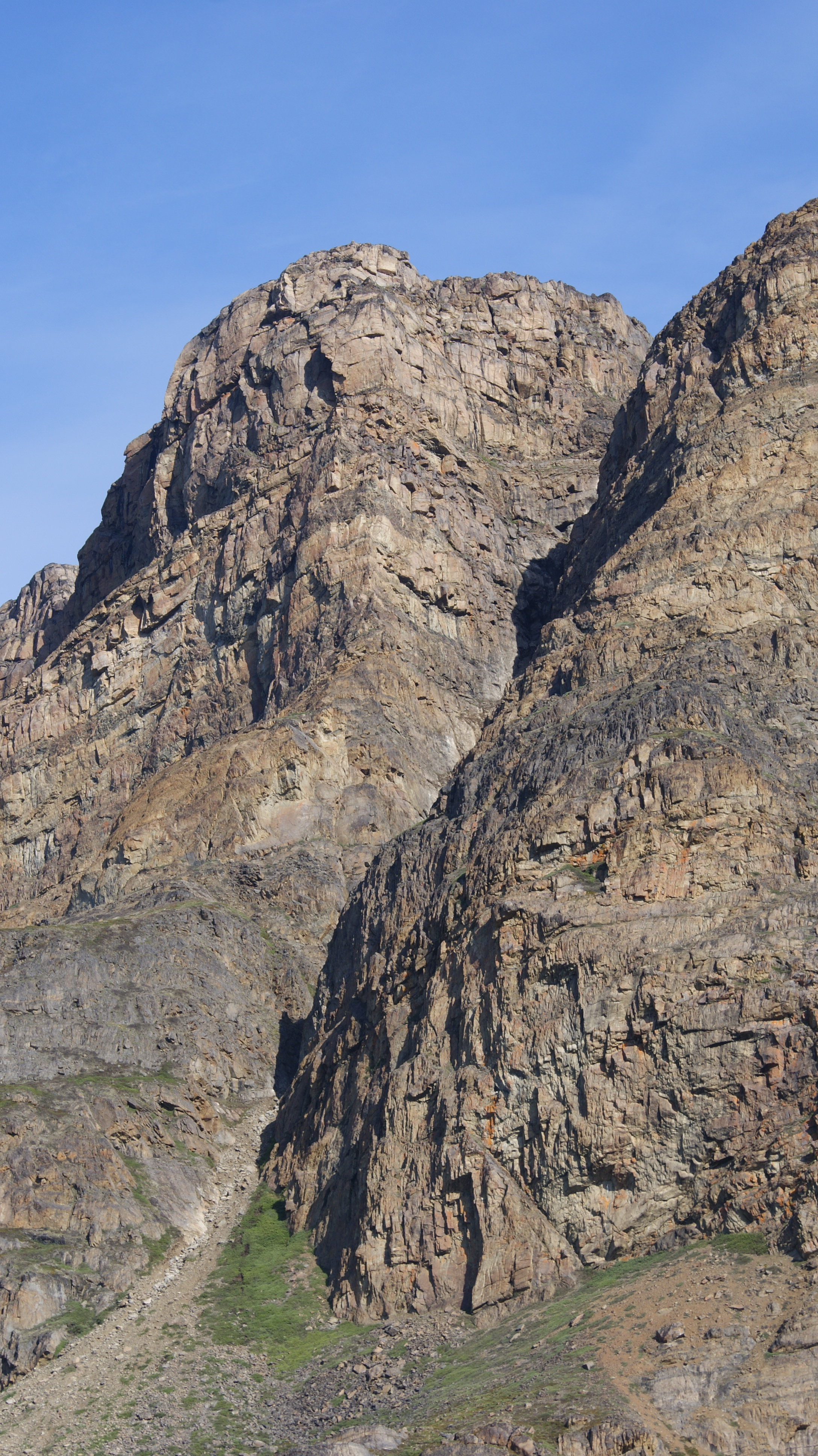 Southern pillar in the southern wall of the main summit of Palasip Qaqqaa, 544m, in the Qeqqata municipality, northeast of Sisimiut, Greenland.